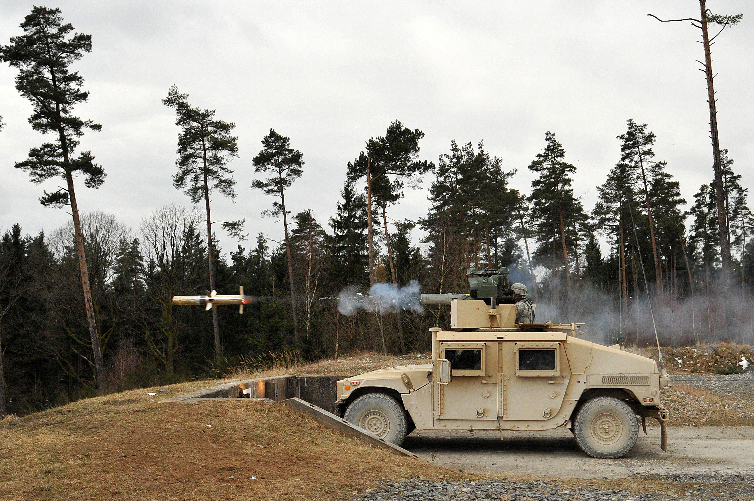 U.S. Army paratroopers assigned to Dog Company, 1st Battalion, 503rd Infantry Regiment, 173rd Airborne Brigade fire a Tube-launched, Optically tracked, Wire-guided (TOW) missile, during a combined defensive live-fire exercise March 6, 2015, at the 7th Army Joint Multinational Training Command in Grafenwoehr, Germany. The 173rd Airborne Brigade is the Army Contingency Response Force in Europe, capable of projecting ready forces anywhere in the U.S. European, Africa and Central commands areas of responsibility within 18 hours. (U.S. Army Photo by Visual Information Specialist Markus Rauchenberger/released)